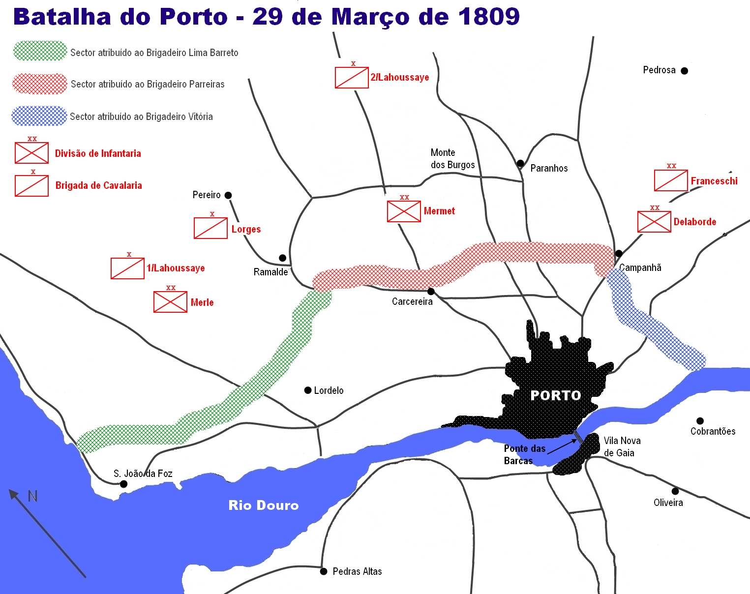 Map of Porto showing defensive sectors in March 29, 1809